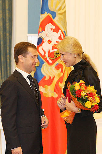 THE KREMLIN, MOSCOW. Ceremony presenting state decorations. Film actress Maria Shukshina received the honorary title Honoured Artist of Russia.